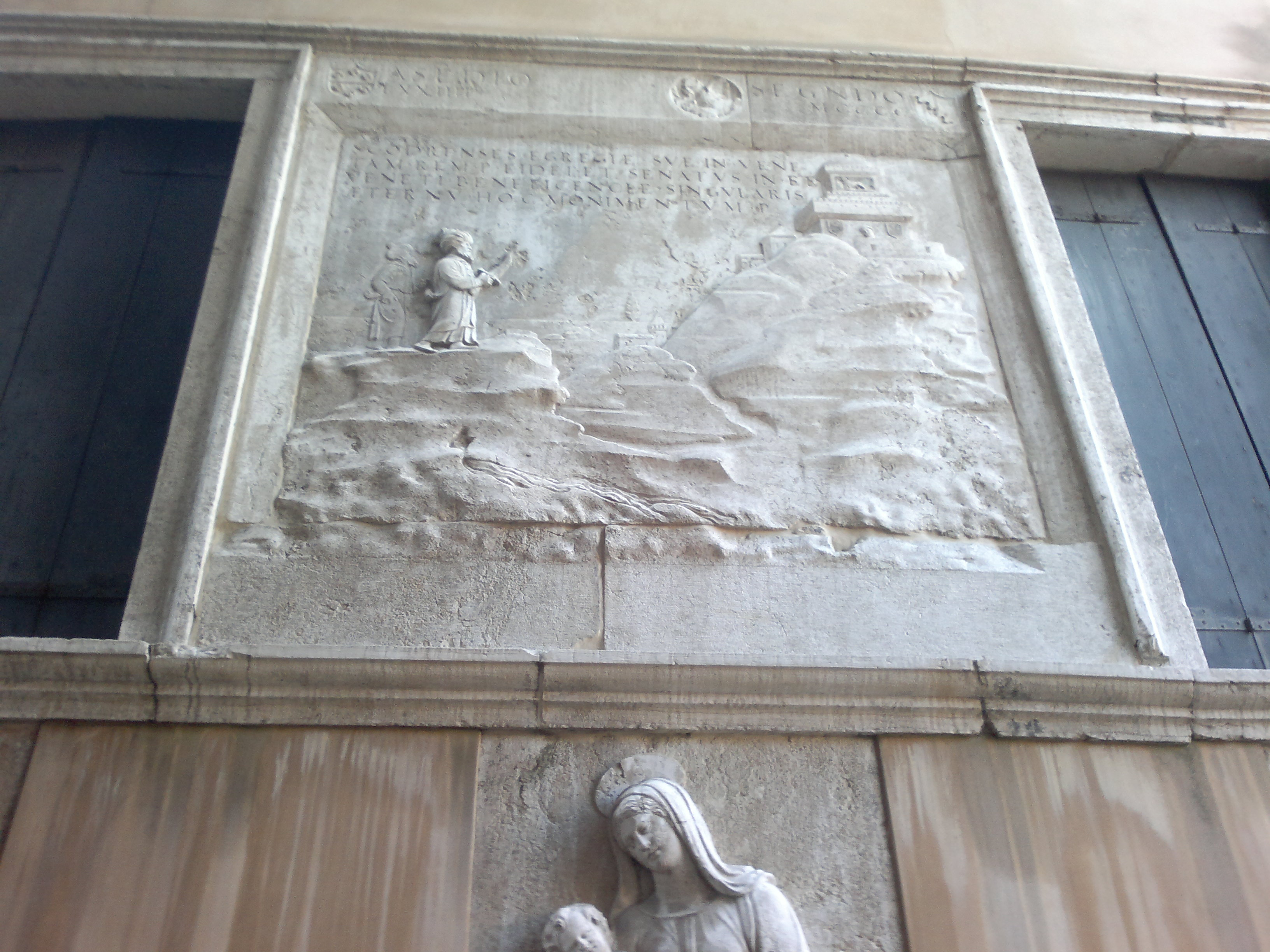 the facade of former Scola degli Albanesi